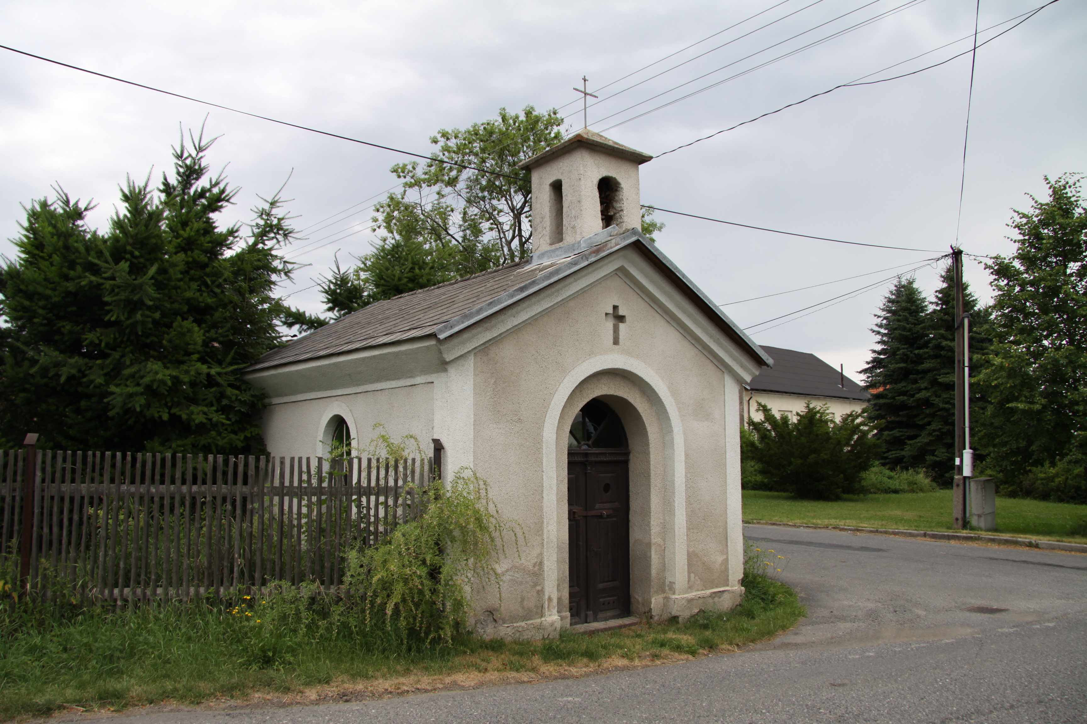 Sádek village in Příbram District, Czech Republic. Chapel